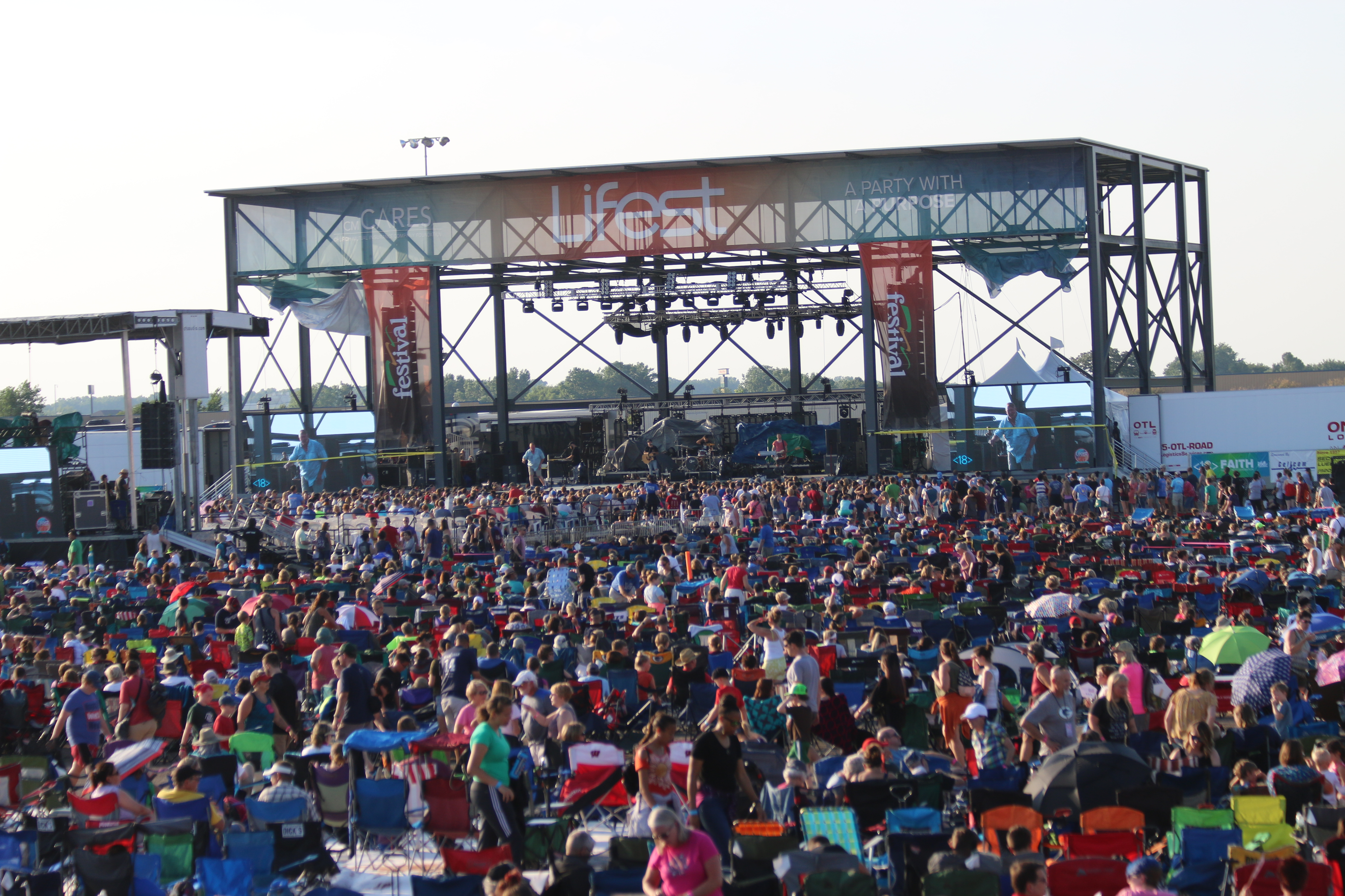 New Grandstand Stage area from grandstands at Lifest in 2018.